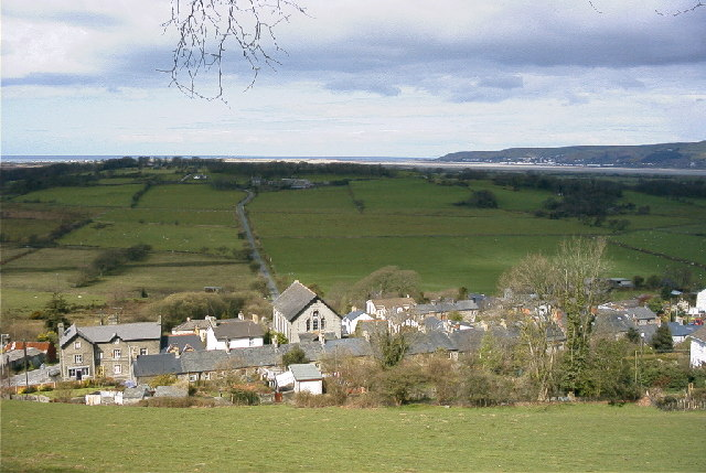 Tre-Taliesin and Ynys Cynfelyn, Ceredigion, looking West towards Cardigan Bay